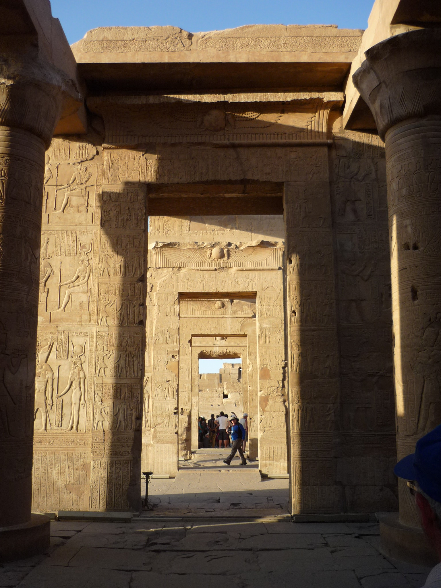 Kom Ombo Temple, Egypt